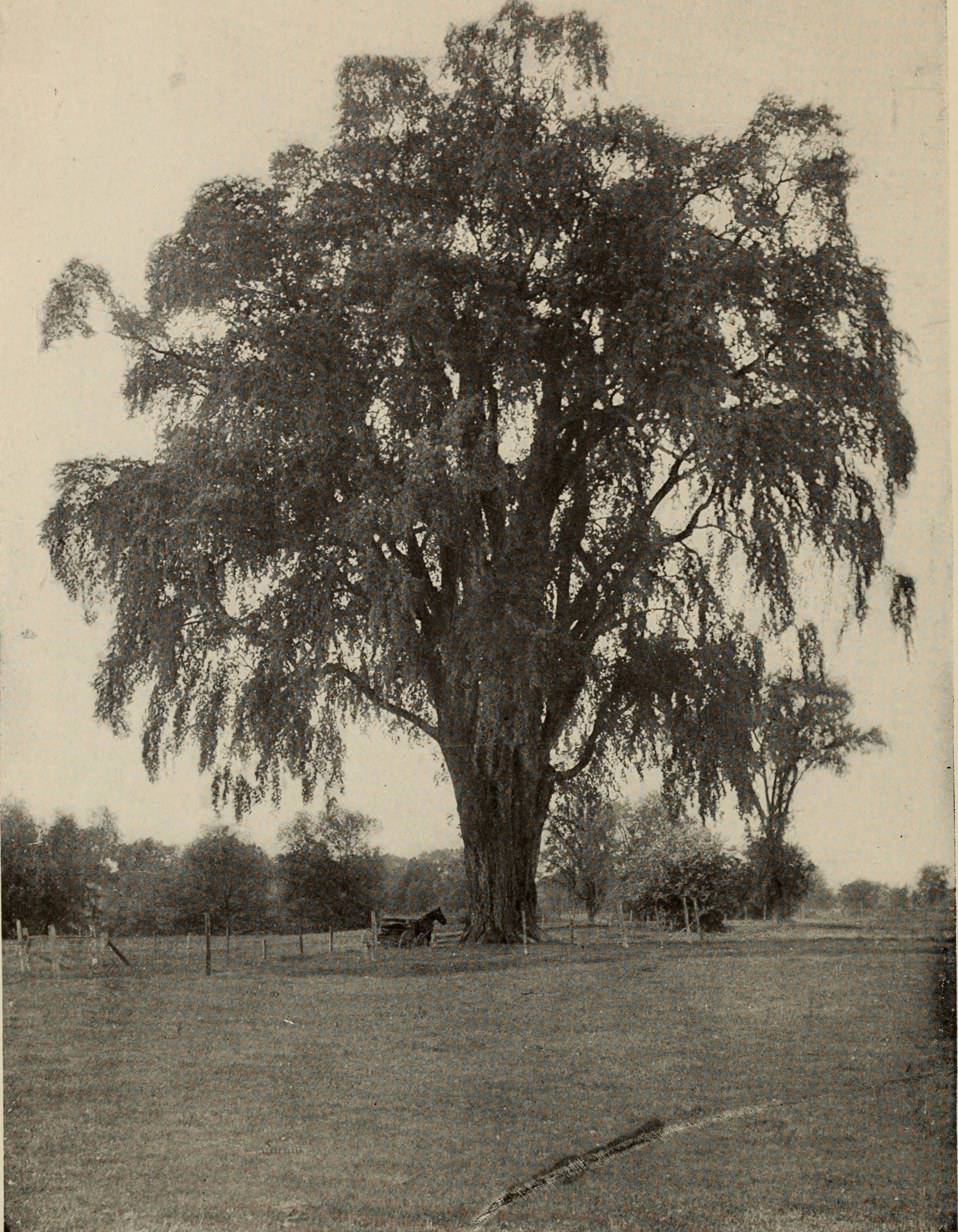 Title: The tree book : A popular guide to a knowledge of the trees of North America and to their uses and cultivation Year: 1920 (1920s) Authors: Rogers, Julia Ellen, b. 1866 Subjects: Trees Publisher: New York : Doubleday, Page Text Appearing Before Image: ' Text Appearing After Image: THE LANCASTER ELM (Ulmus Americana) This noble specimen of our common white elm grows in a field near Lancaster, Massachusetts. The objects around it em-phasize its great size. It shows what a roadside tree may become if it is let alone and given time and elbow room. It isthe pride of the state it grows in. May the insects spare it long! CHAPTER XXVIII: THE ELMS AND THEHACKBERRIES Family Ulmace^e i. Genus ULMUS, Linn. Trees of horticultural and lumber value. Leaves alternateserrate, unequal at base, with strong ribs and short petiolesFlowers greenish, inconspicuous, perfect. Fruit a dry nutletwith thin encircling wing, bearing two hooks at apex. KEY TO SPECIES A. Blooming before the leaves in spring.B. Twigs smooth. C. Branches corky winged. (U. alata) wahoo or winged elmCC. Branches not corky winged. (U. Americana) American or water elmBB. Twigs pubescent. C. Branches corky. (JJ. Thomasi) -cork elm CC. Branches not corky; leaves rough above; twigs andbuds with coarse, rusty hairs. (J